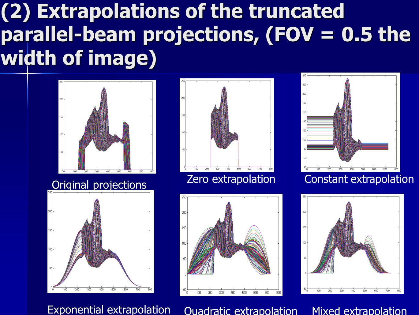 1) Projections of Sheep-Logan phantoms. 2) Trucated projections(Zero extrapolation). 3) Constant extraplation. 4) expontional extrapolation. 5). Qudratical extrapolation. 6 Mixed extrapolation of 4) and 5).